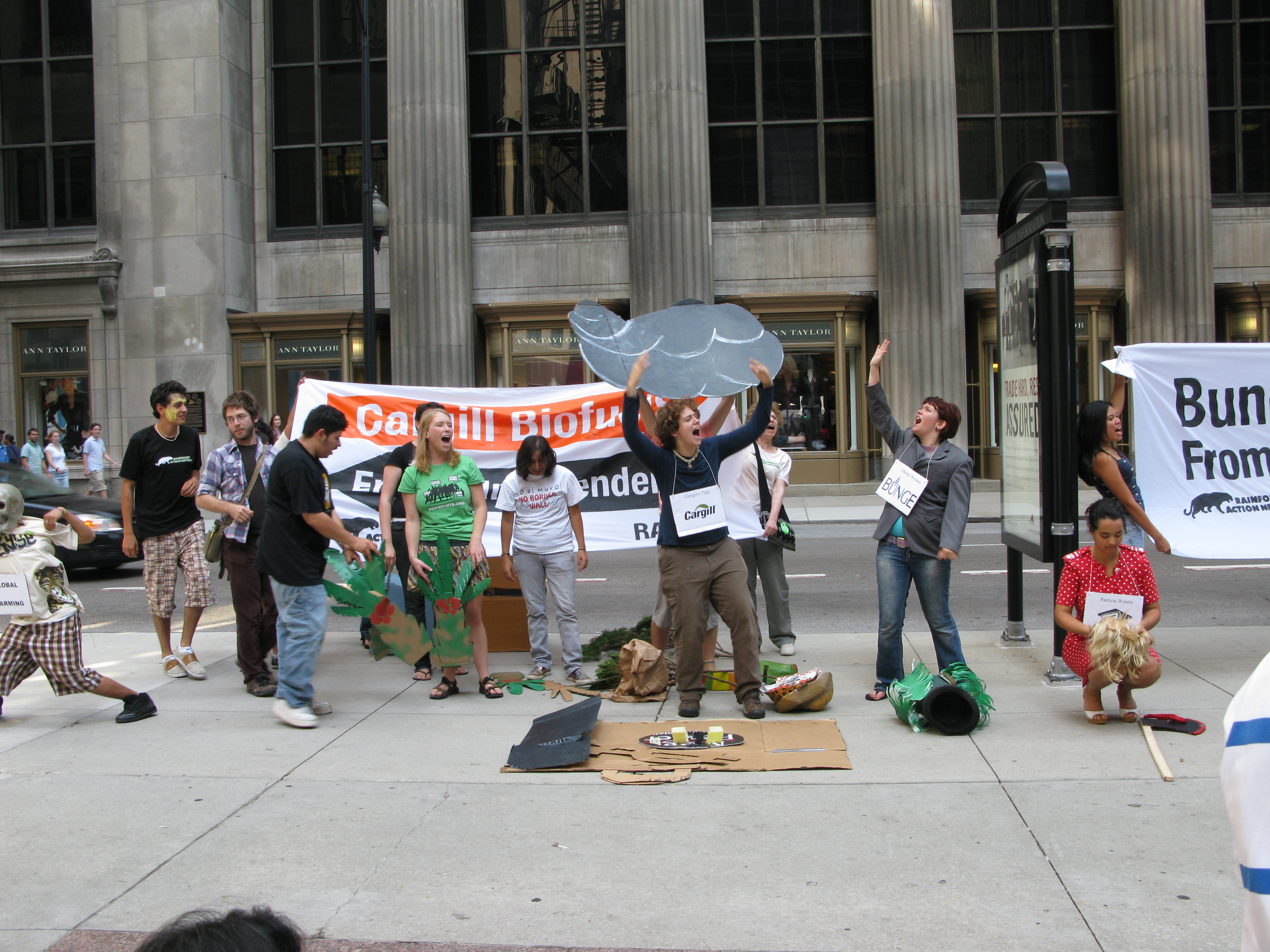 Rainforest Action Network activists, protesting the expansion of palm oil and soy plantations into critical ecosystems, near Chicago Board of Trade.